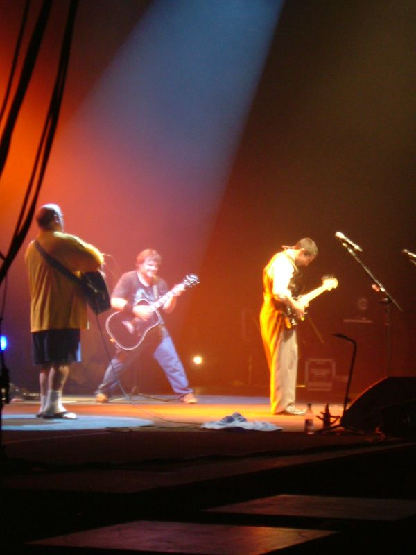 {l-r) Kyle Gass, Jack Black and John Spiker